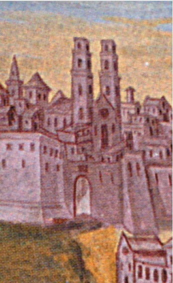 Altamura dipinto particolare porta Matera